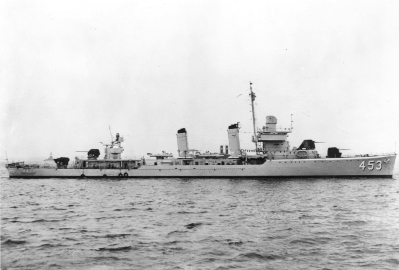 The U.S. Navy destroyer USS Bristol (DD-453) in October 1941.